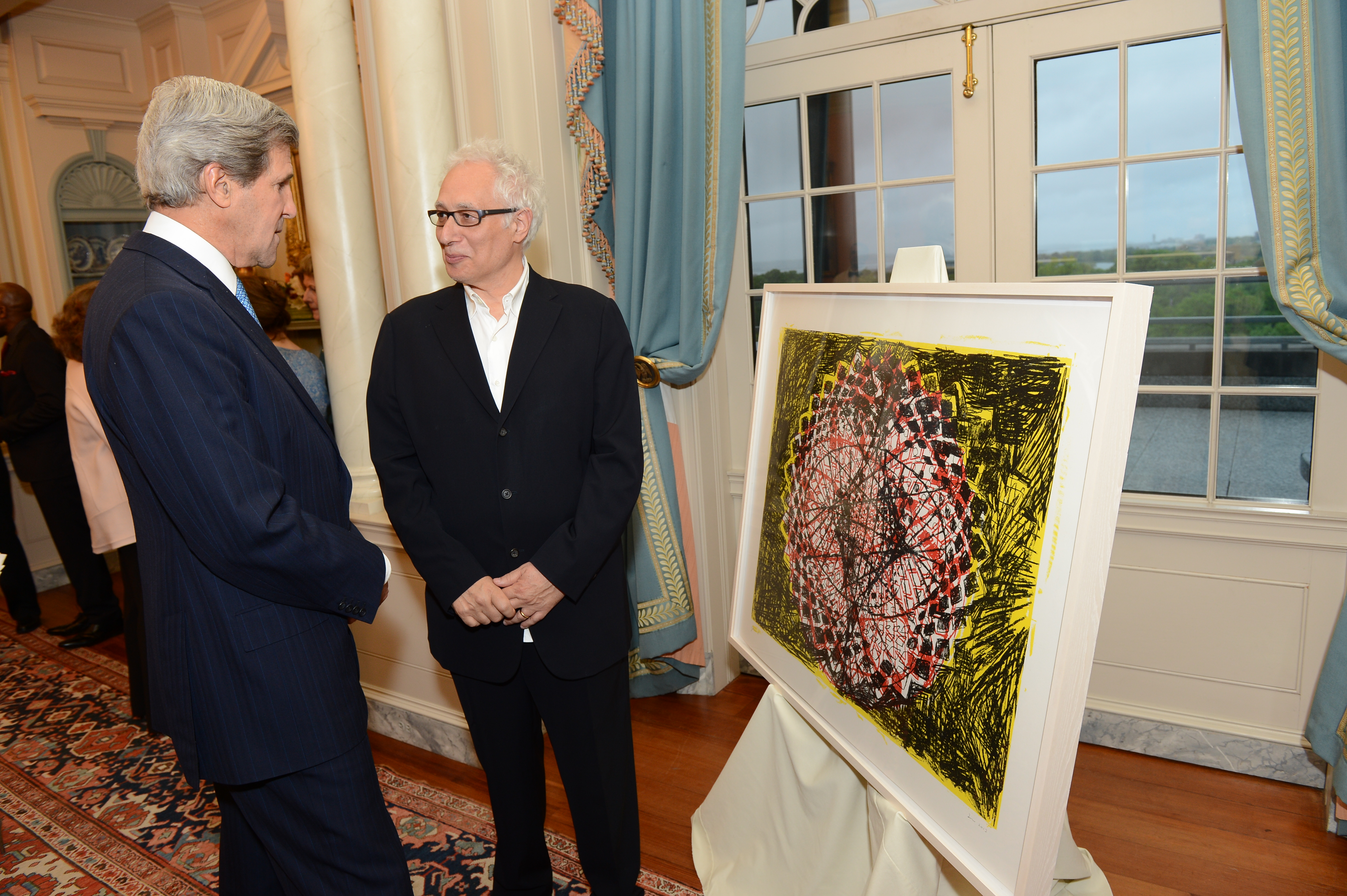 U.S. Secretary of State John Kerry views a work of art at the Annual Foundation for Arts and Preservation in Embassies (FAPE) dinner at the U.S. Department of State in Washington, D.C., on April 29, 2013. [State Department photo/ Public Domain]